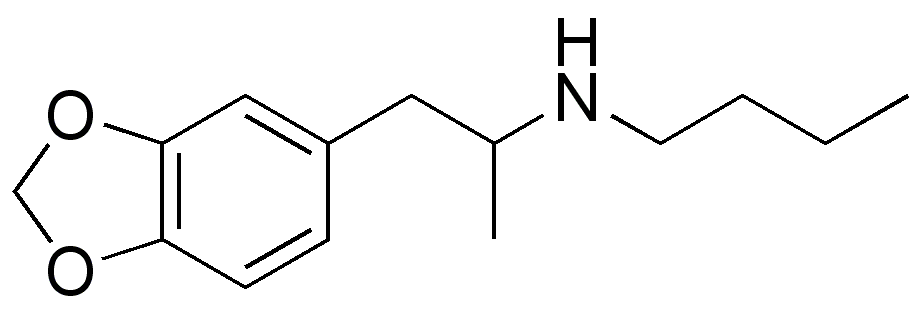 Chemical structure of MDBU, drawn in ChemDraw by User:Mark PEA.